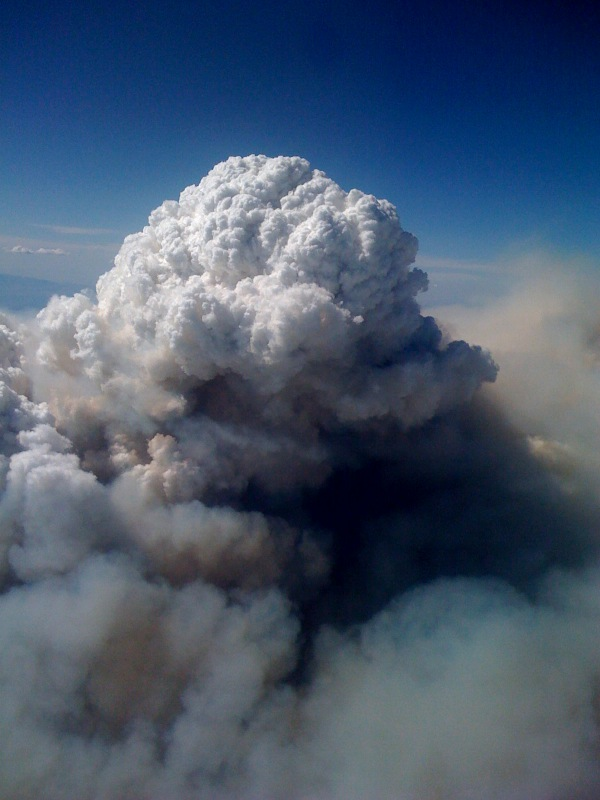 A pyrocumulus cloud from the August 2009 Station fire in southern California as seen from above (in a departing commercial flight from LAX to DEN).